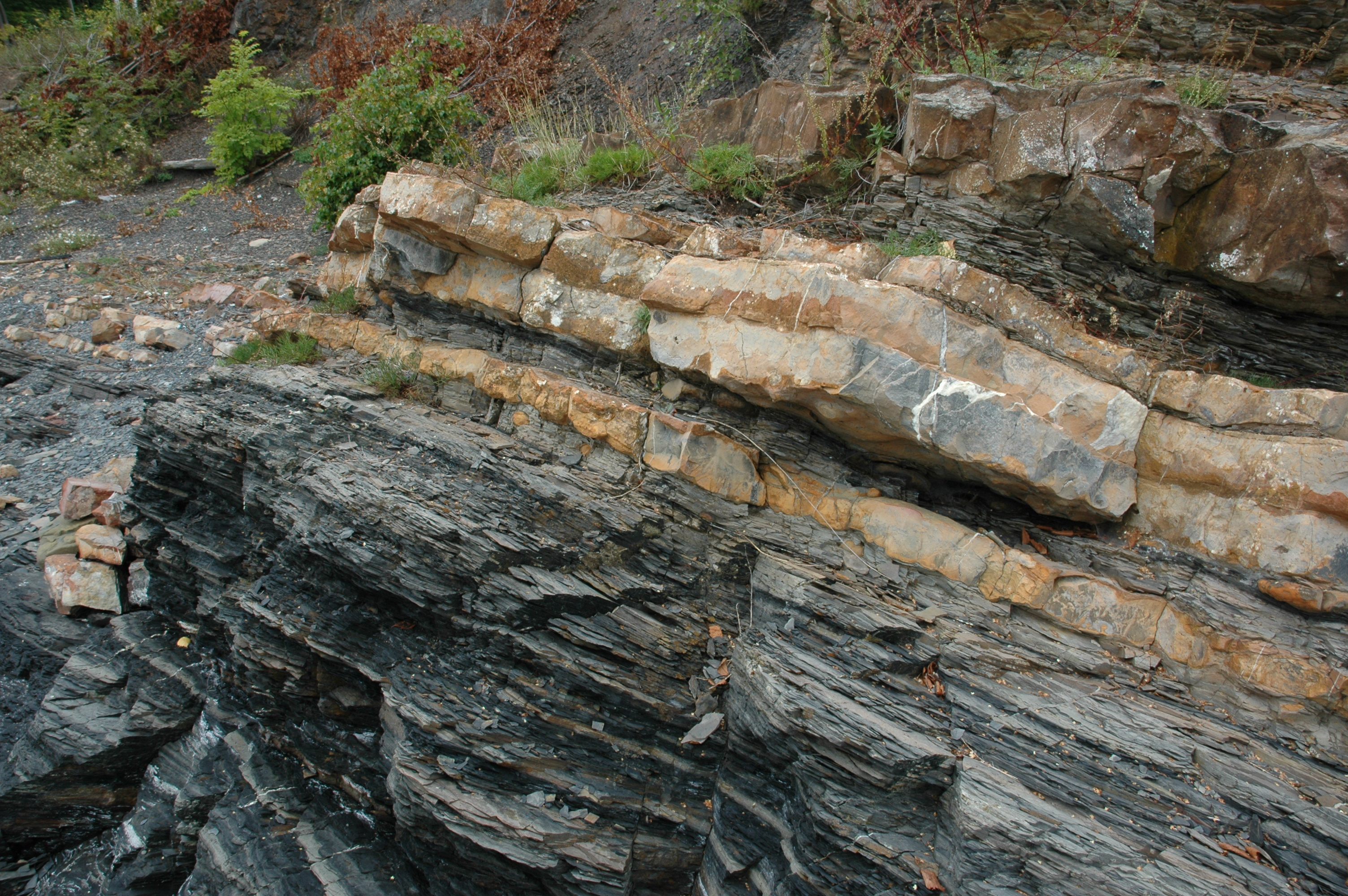 Yellowish to brownish (background) weathering limestone beds, intercalated with dark shale. All these beds belong to the so-called Ceratopyge Series (named after a trilobite genus) of the Lower Ordovician of the Oslo Graben, southern Norway.